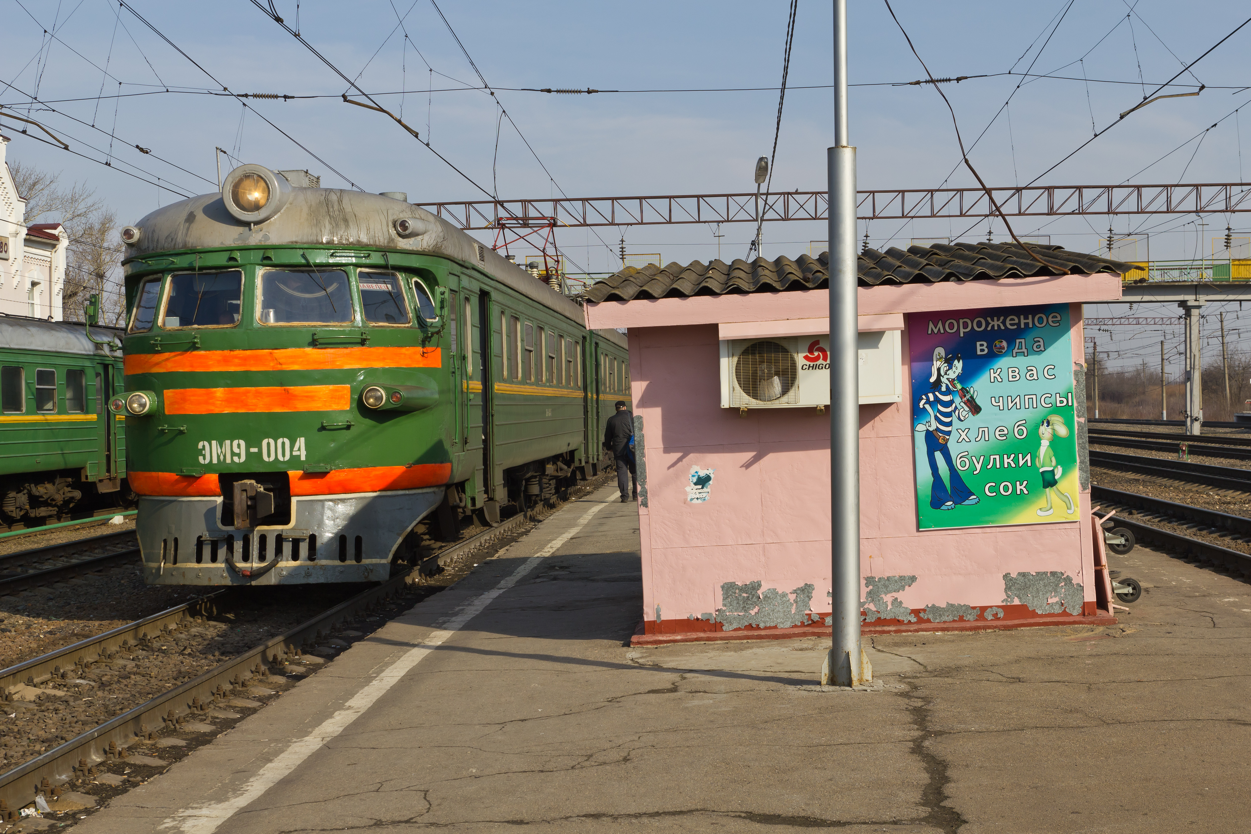 EM9 train at Uzunovo station, Moscow Oblast, Russia.